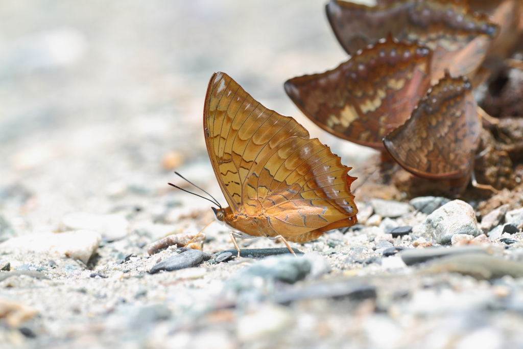 Close wing of Charaxes marmax Westwood, 1847 – Yellow Rajah